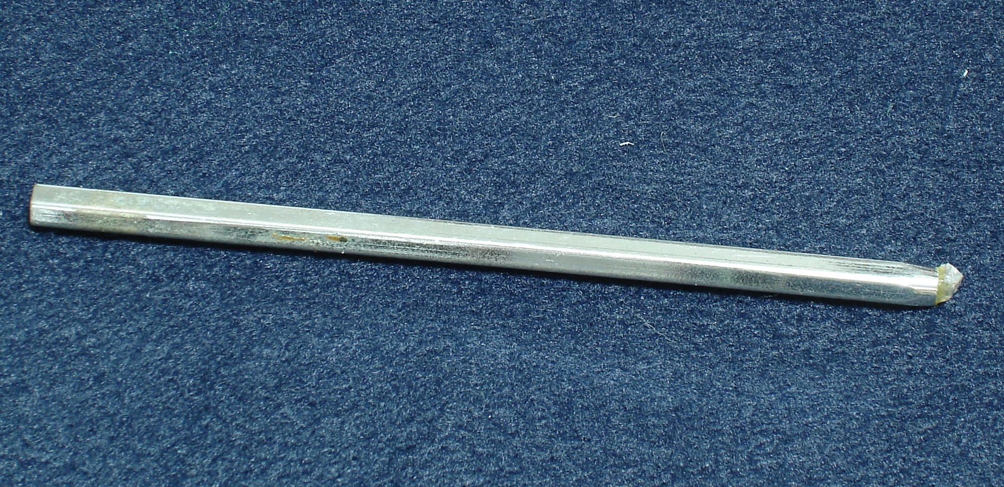 Metal stick with a diamond point for hardness testing.